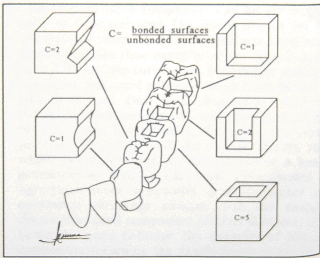 Drawing explaining the C FACTOR.